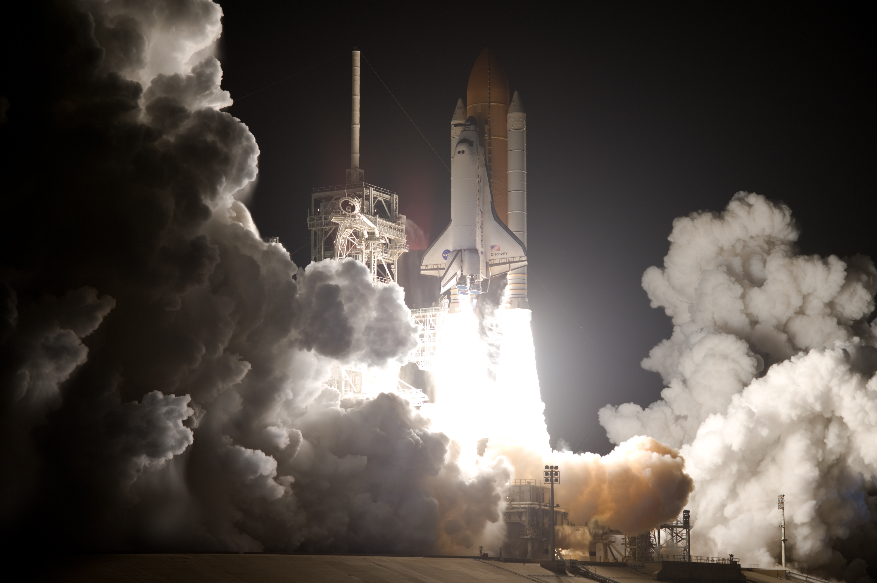 CAPE CANAVERAL, Fla. – Billows of smoke and steam rise above Launch Pad 39A at NASA's Kennedy Space Center in Florida alongside space shuttle Discovery as it races toward space on the STS-128 mission. Liftoff from Launch Pad 39A was on time at 11:59 p.m. EDT. The first launch attempt on Aug. 24 was postponed due to unfavorable weather conditions. The second attempt on Aug. 25 also was postponed due to an issue with a valve in space shuttle Discovery's main propulsion system. The STS-128 mission is the 30th International Space Station assembly flight and the 128th space shuttle flight. The 13-day mission will deliver more than 7 tons of supplies, science racks and equipment, as well as additional environmental hardware to sustain six crew members on the International Space Station. The equipment includes a freezer to store research samples, a new sleeping compartment and the COLBERT treadmill.